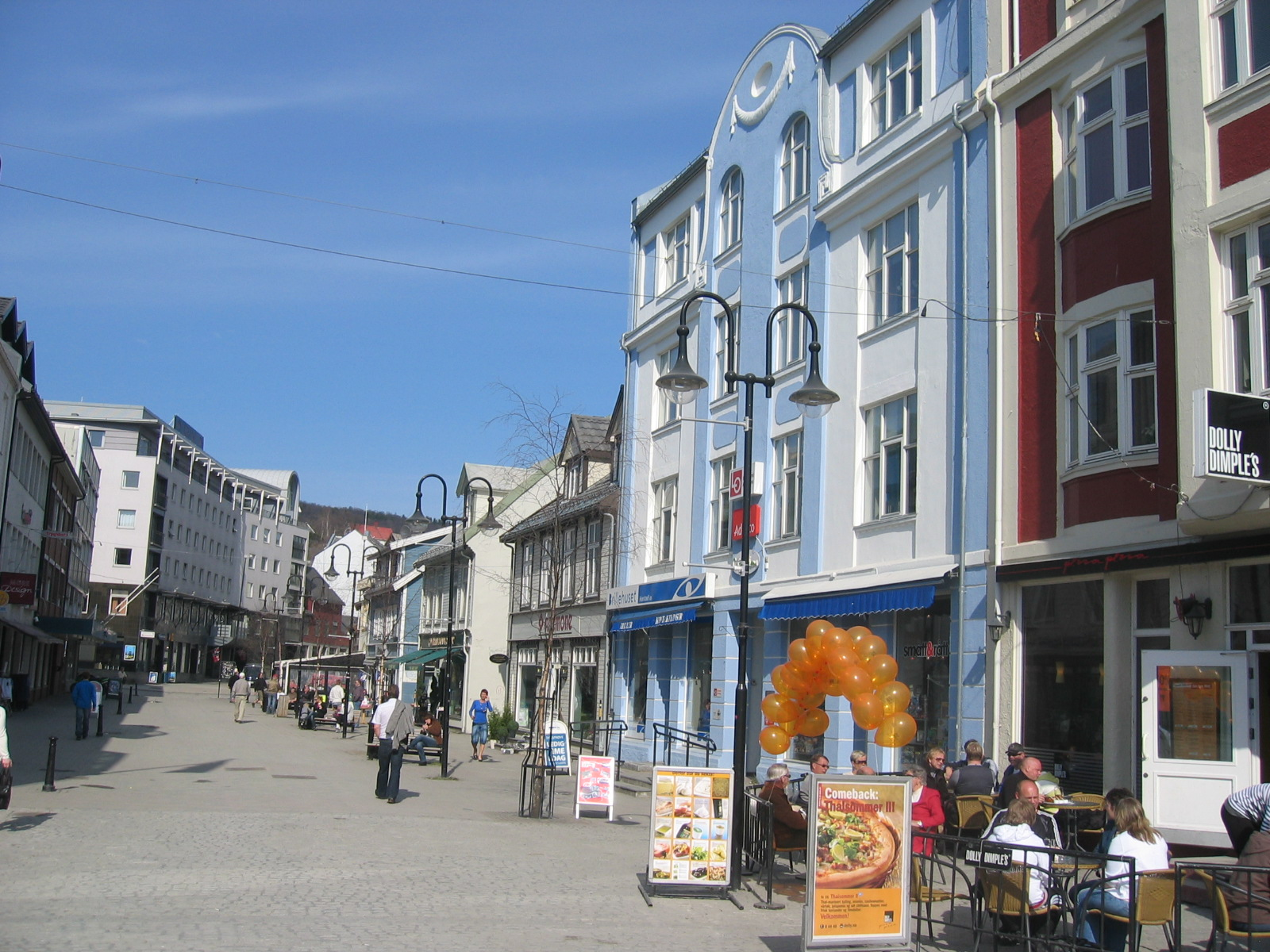 Main street "Standgate"